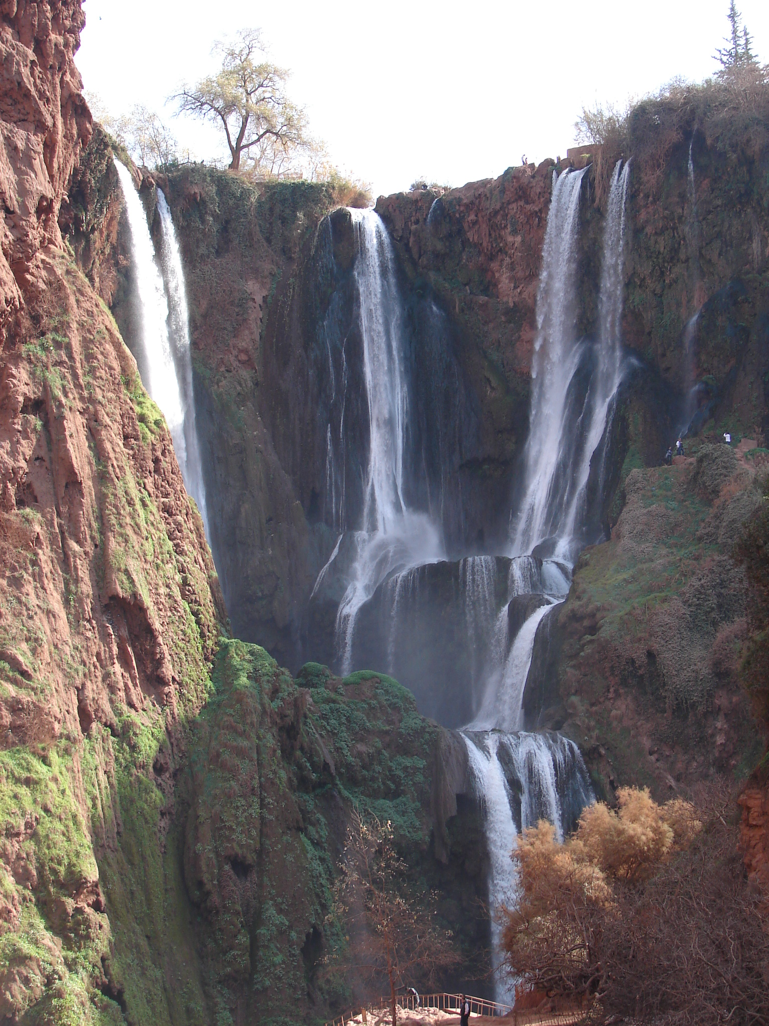 Ouzoud Waterfalls, Morocco